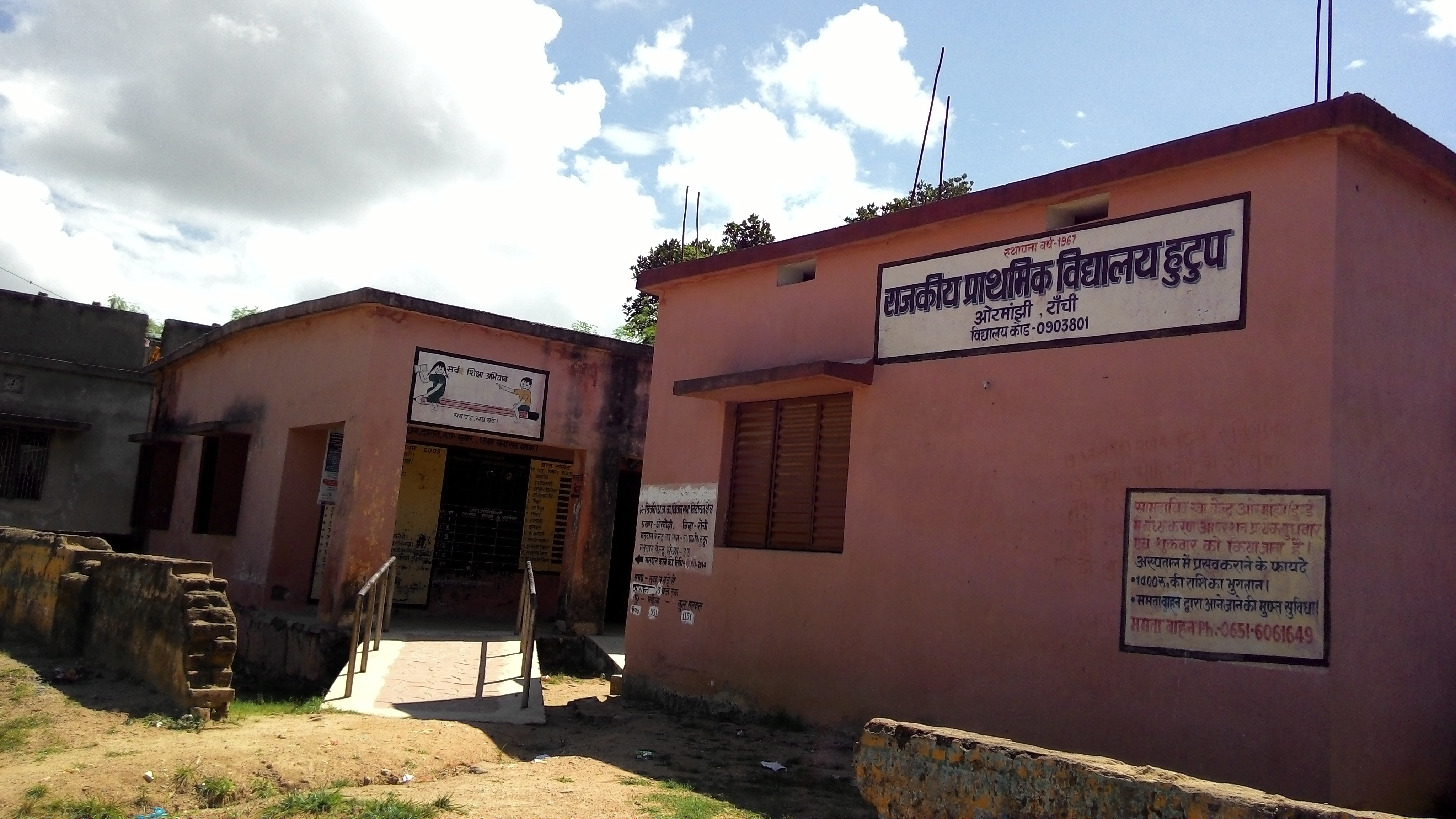 Irba, H.B. Road, Hutup, Ormajhi, Mesra, Jharkhand, India